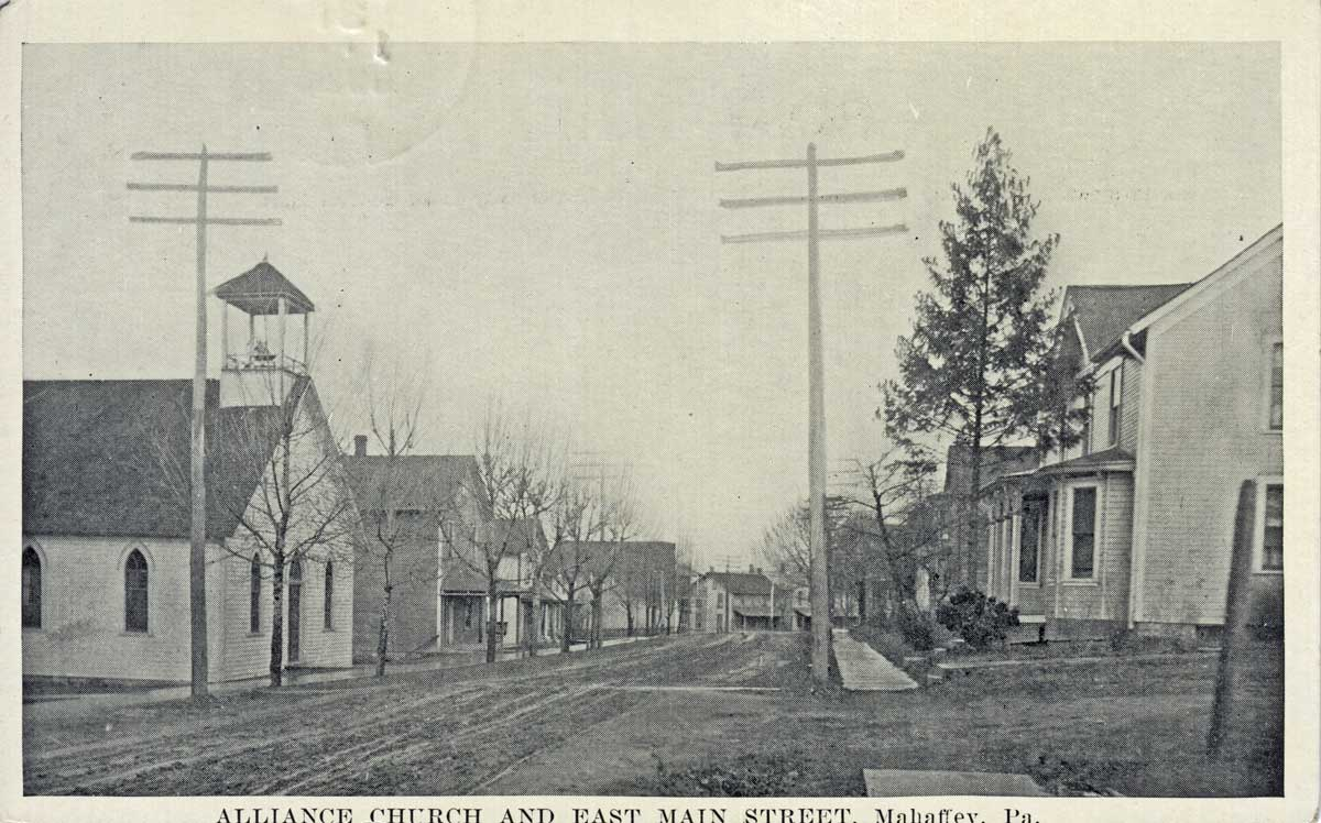 Alliance Church and East Main Street, c. 1923